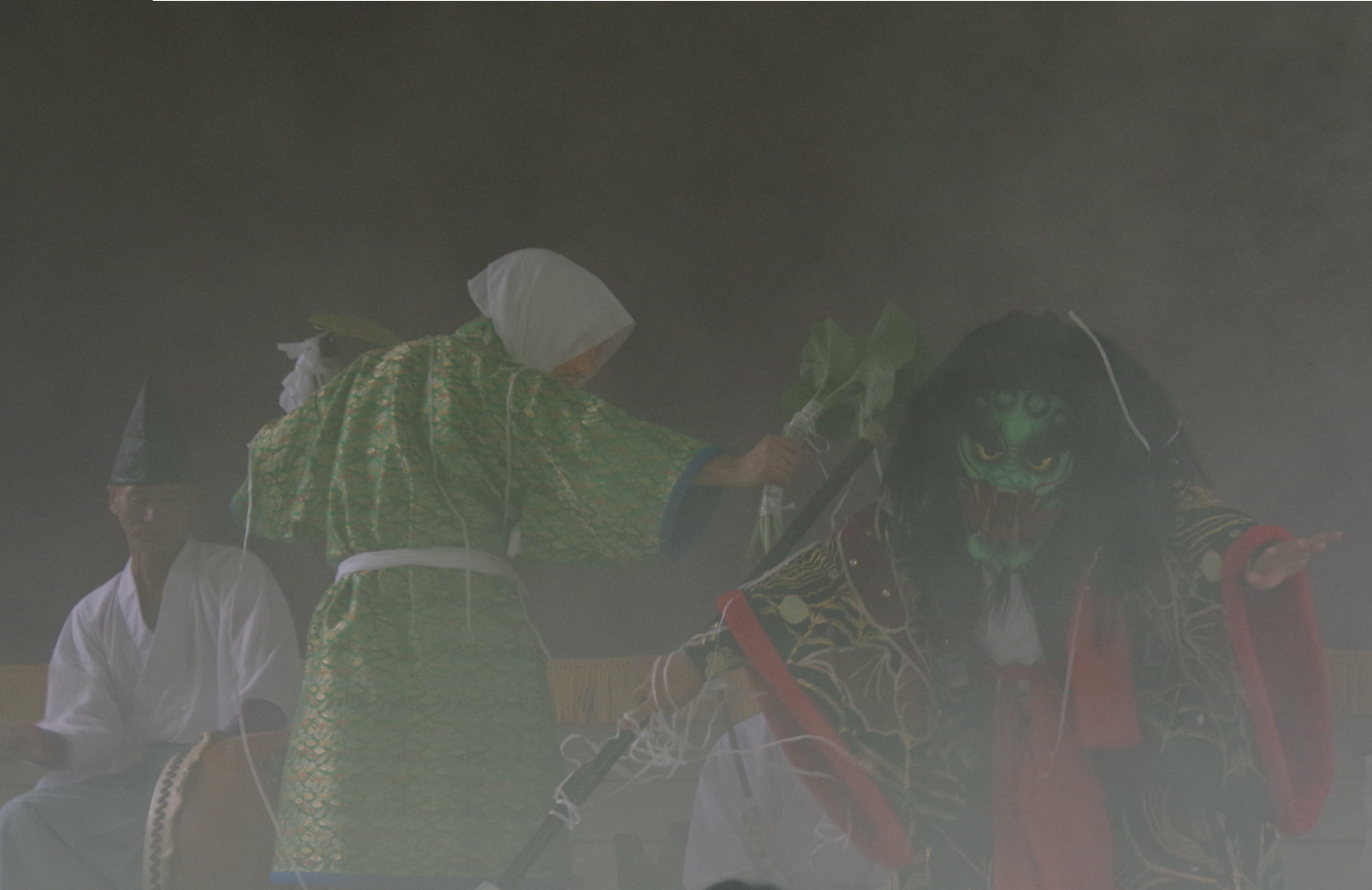 Iwami Kagura which is Shinto theatrical dance. Named WASABI KAGURA or "Yama Aaoi Tengu"